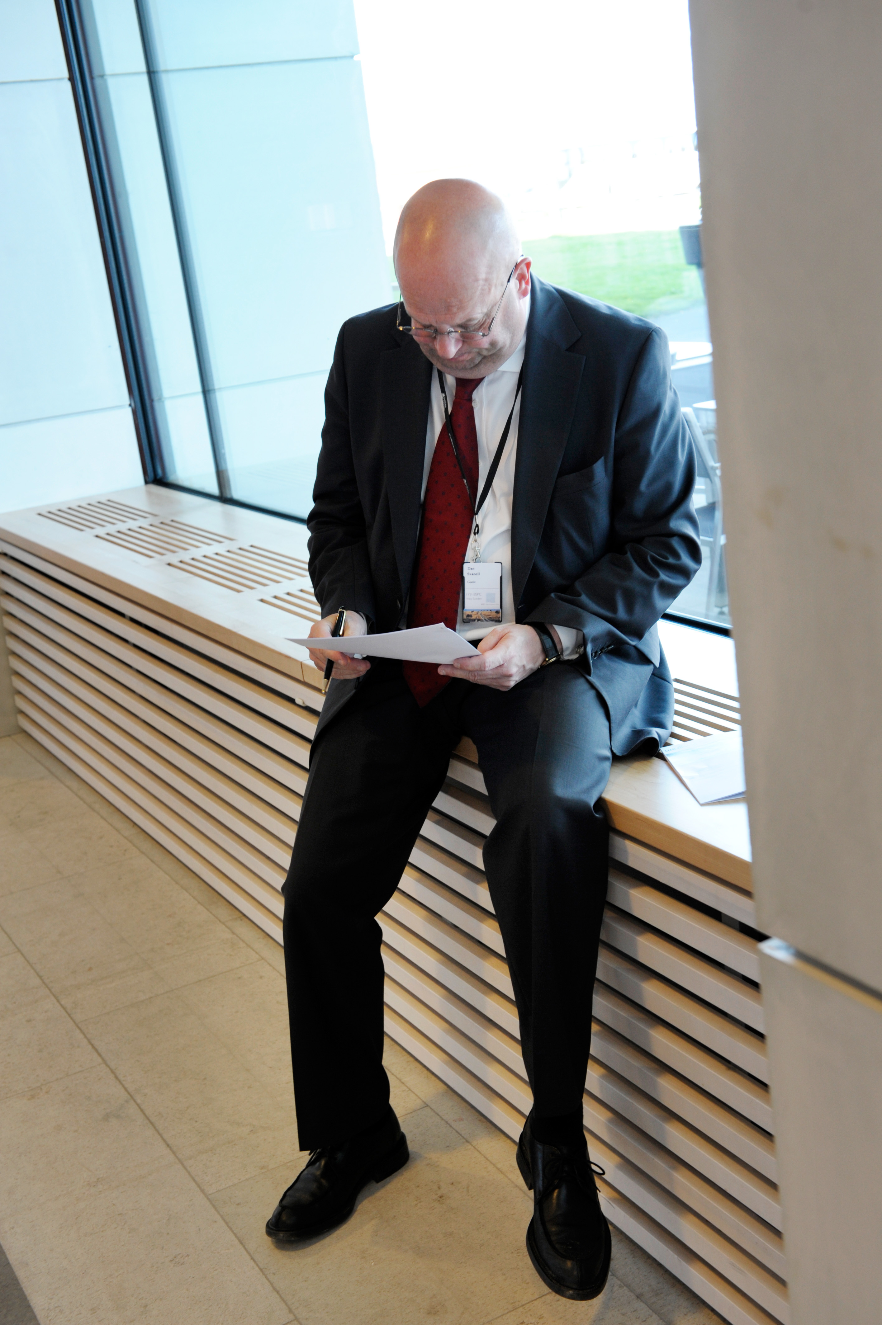 BSPC:s möte i Visby 2008-09-01